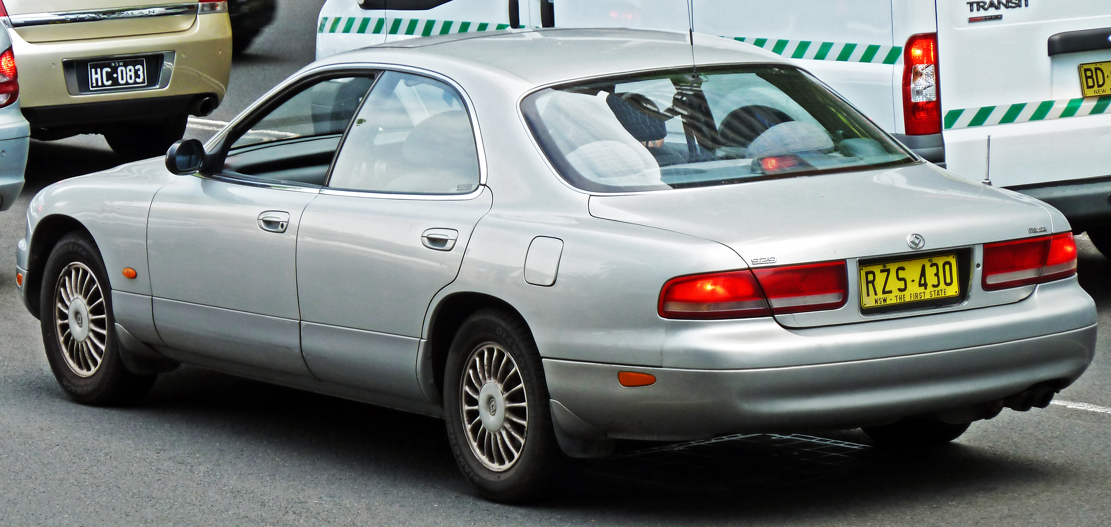 1991 Mazda 929 (HD) sedan. Photographed on Macquarie Street, Sydney, New South Wales, Australia.